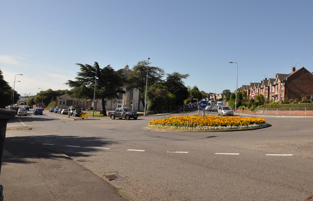 Junction of Gladstone and Buttrills Road and St Paul's Avenue - Barry